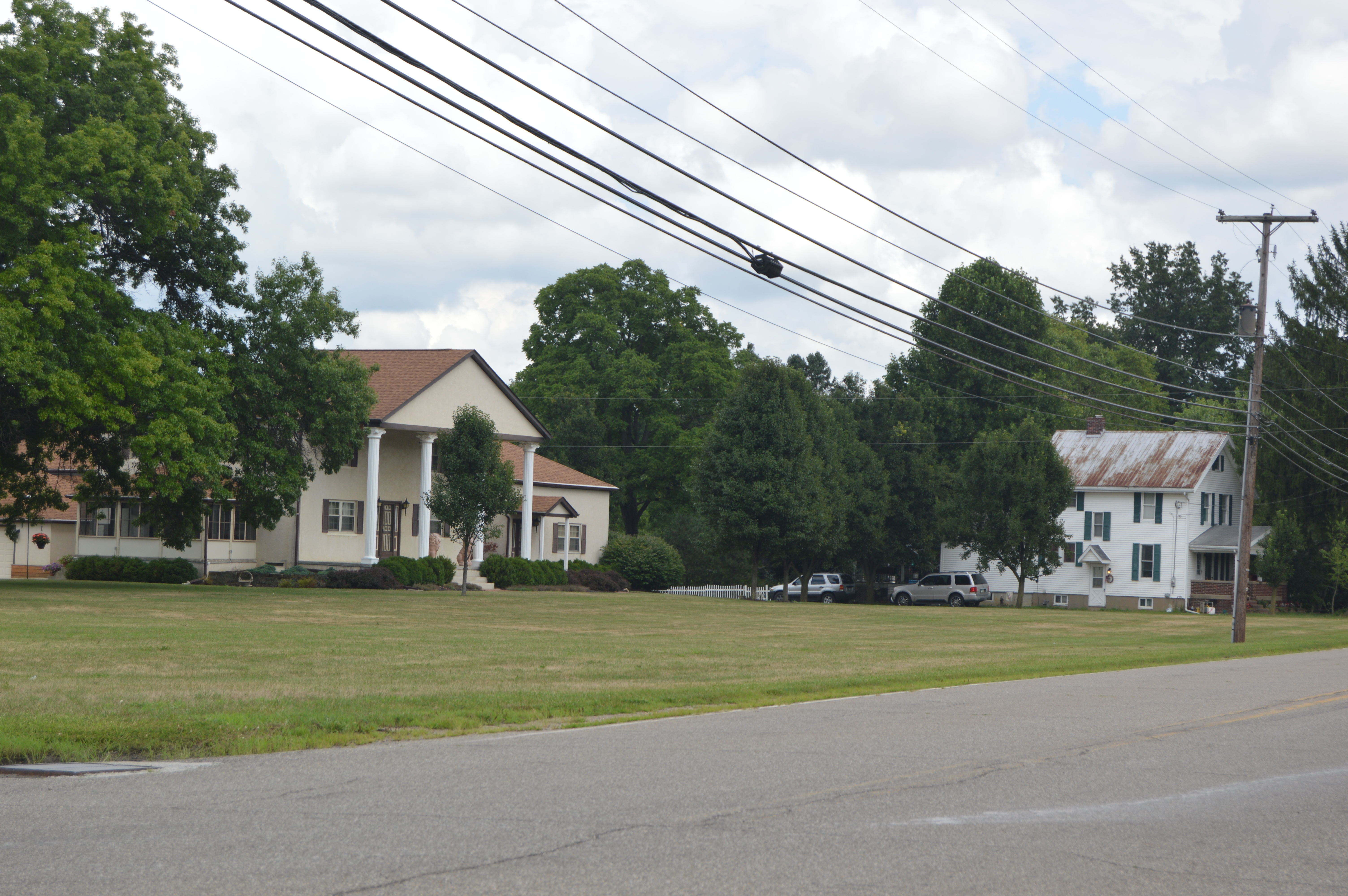 Houses on the northern side of Marne Road east of Montgomery Road in Marne, Ohio, United States.